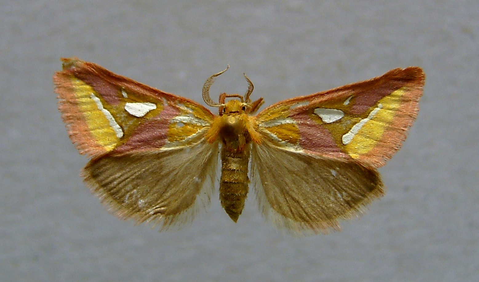 Axia margarita, Lleida Spain